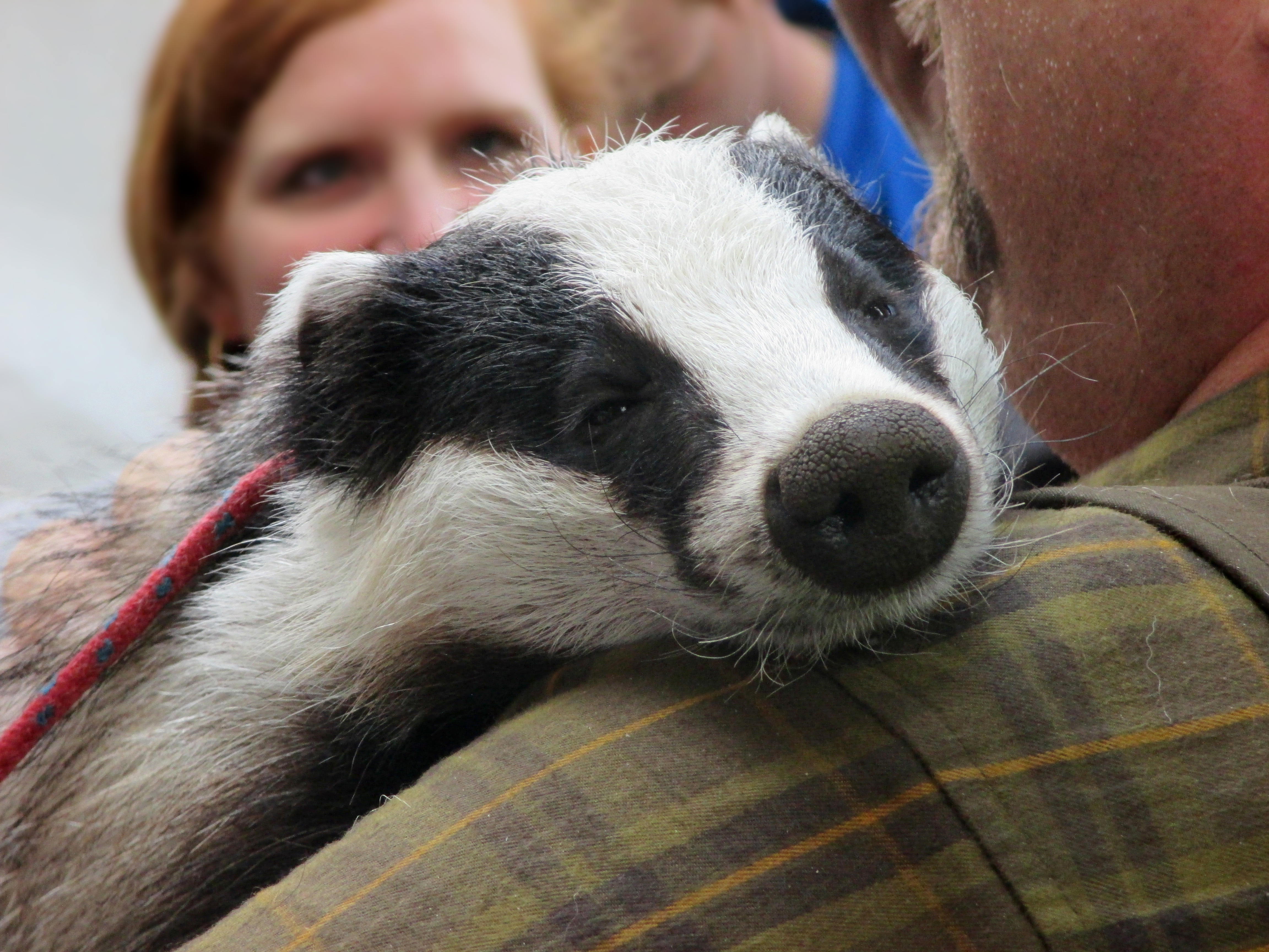 A tame European Badger (Meles meles) showed at the celebration of the National Day of Sweden 2014 at Planteringsförbundets park (i.e. The Park of the Planting Society) in Falköping, Falköping Municipality, former Skaraborg County, Västergötland, Västra Götaland County, Sweden. It is a male, 1½ years old badger.